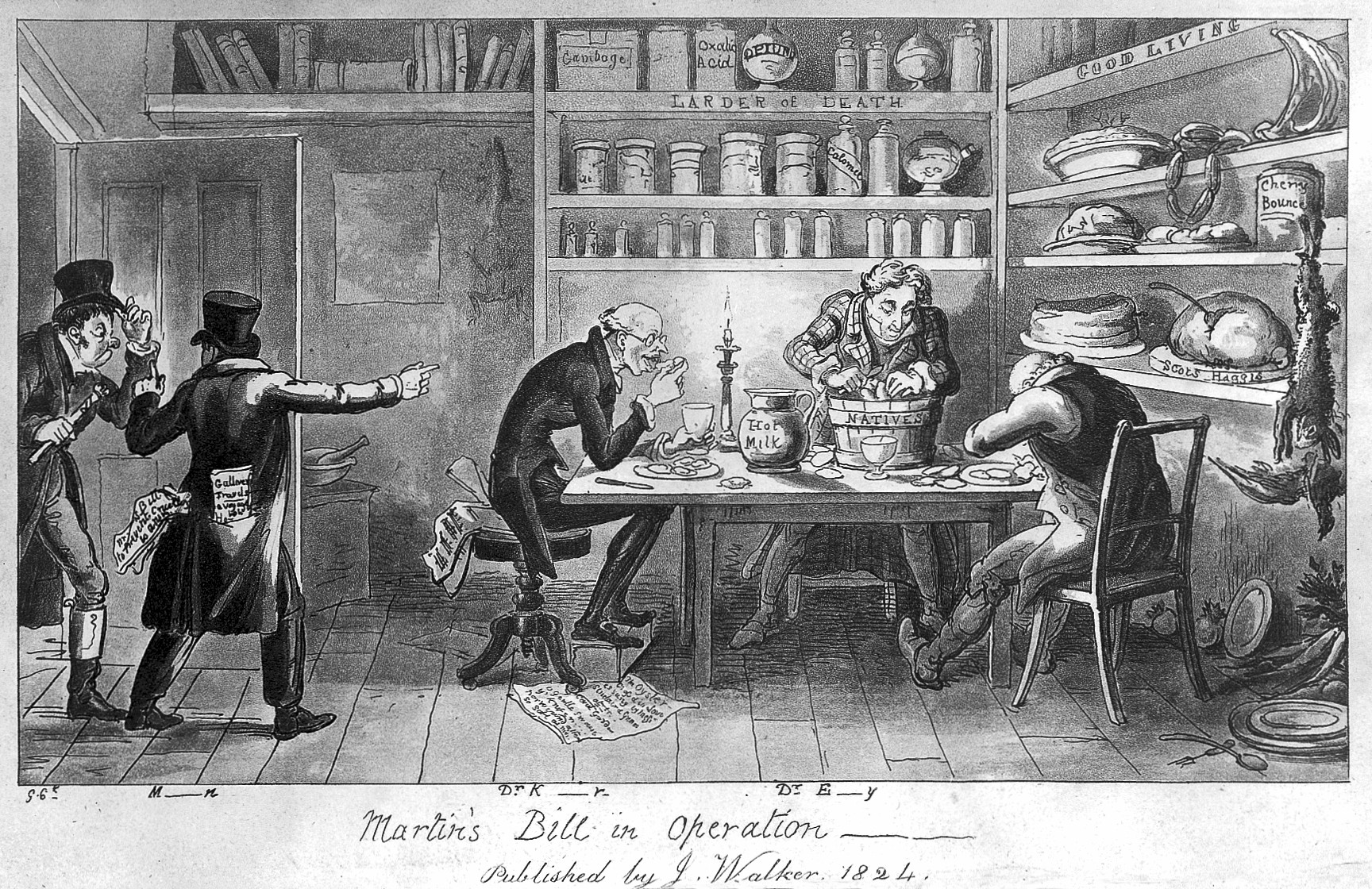 Caricature of Richard Martin (1754-1834), William Kitchiner (1775-1827), and Samuel Phillips Eady Rare Books Keywords: Samuel Phillips Eady; Richard Martin; William Kitchiner; G. Cruikshank